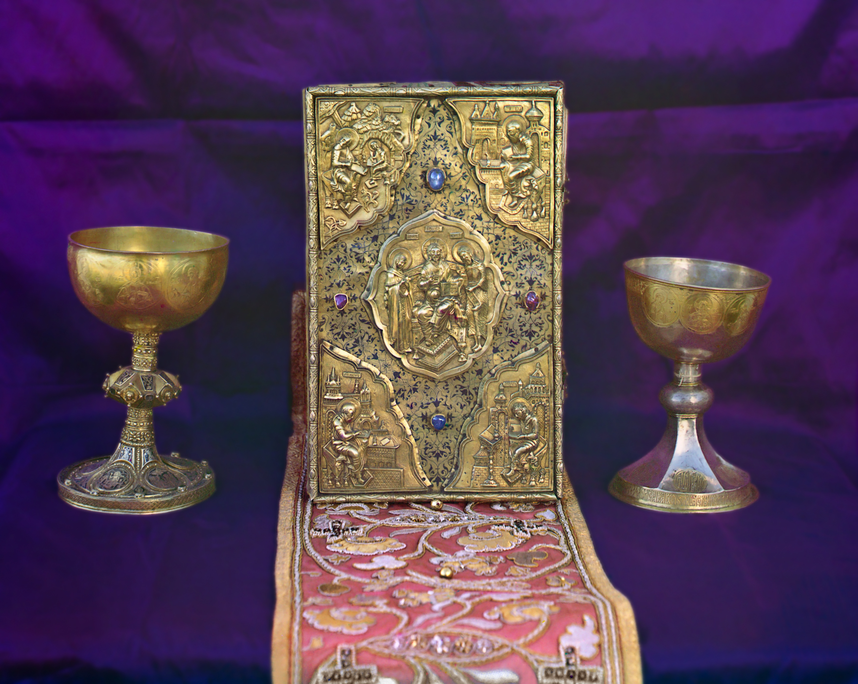 Original Description: Tsar Aleksei Mikhailovich's gospel and Tsar Mikhail Feodorovich's sacramental vessels. [Trinity Monastery, Aleksandrov].